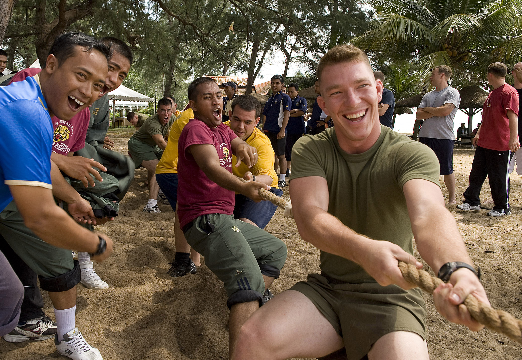 TERENGGANU, Malaysia (June 25, 2009) Lance Cpl. Andrew Zagrocki, front, assigned to the 4th Assault Amphibian Battalion, and Malaysian Army Pvt. Amd Azrol, pull their way to victory in a tug-of-war during a sports day for Cooperation Afloat Readiness and Training (CARAT) Malaysia 2009. CARAT is a series of bilateral exercises held annually in Southeast Asia to strengthen relationships and enhance the operational readiness of the participating forces. (U.S. Navy photo by Mass Communication Specialist 1st Class Michael Moriatis/Released)